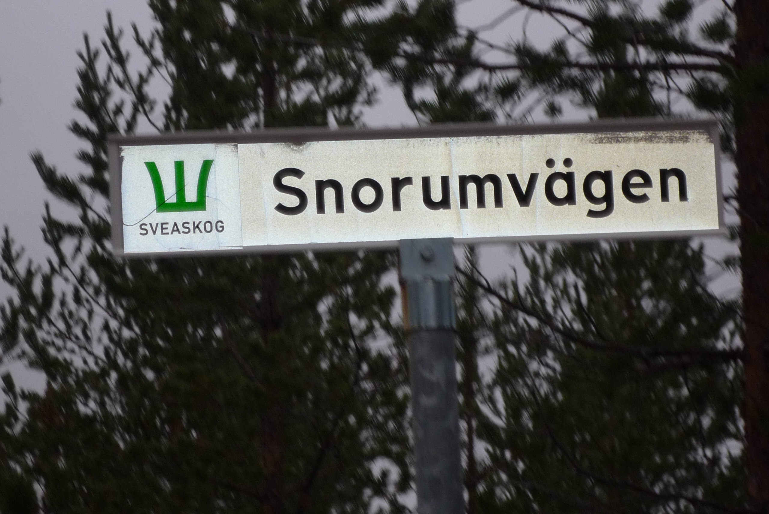 Road sign from corporation Sveaskog, showing the way to abandoned village of Snorum, Jörn, Skellefteå, north Sweden.